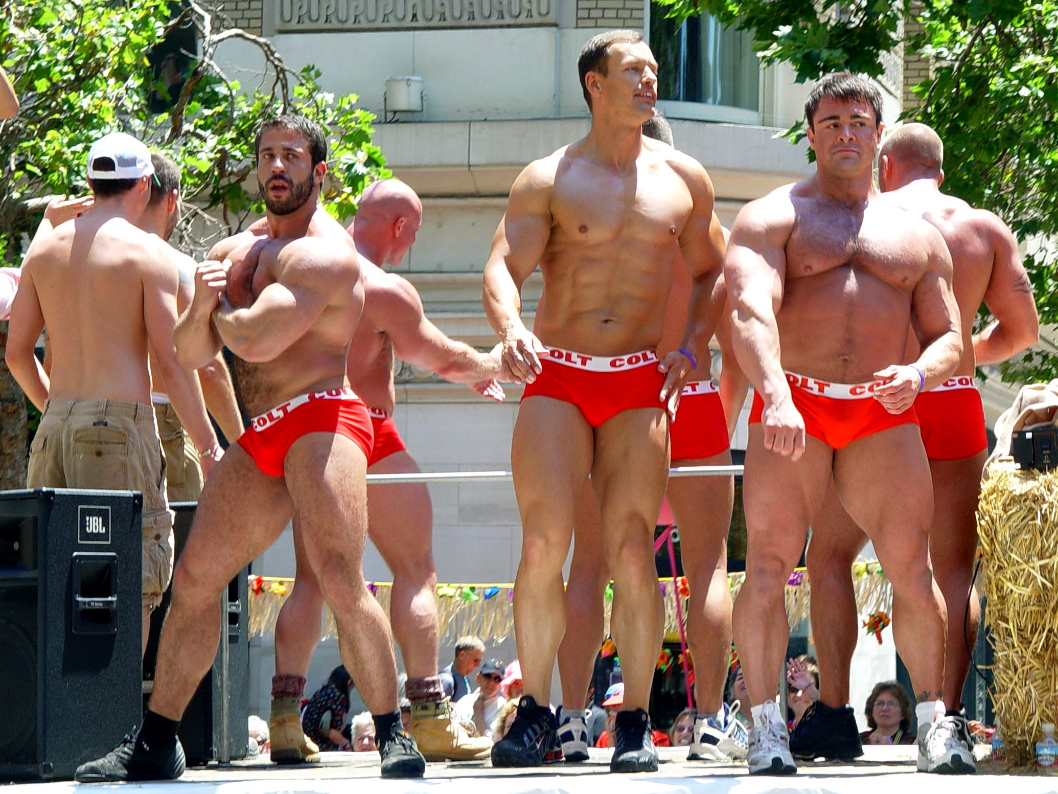 Are those new candidates to become California governor?